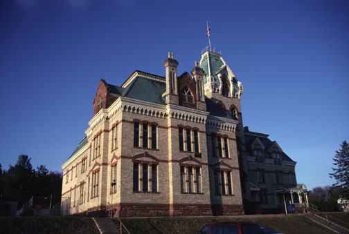 Front façade of the Houghton County Courthouse — located at 401 E. Houghton Street in Houghton, Michigan.Built in the Second Empire style in 1886, it is listed on the National Register of Historic Places in Houghton County, Michigan.